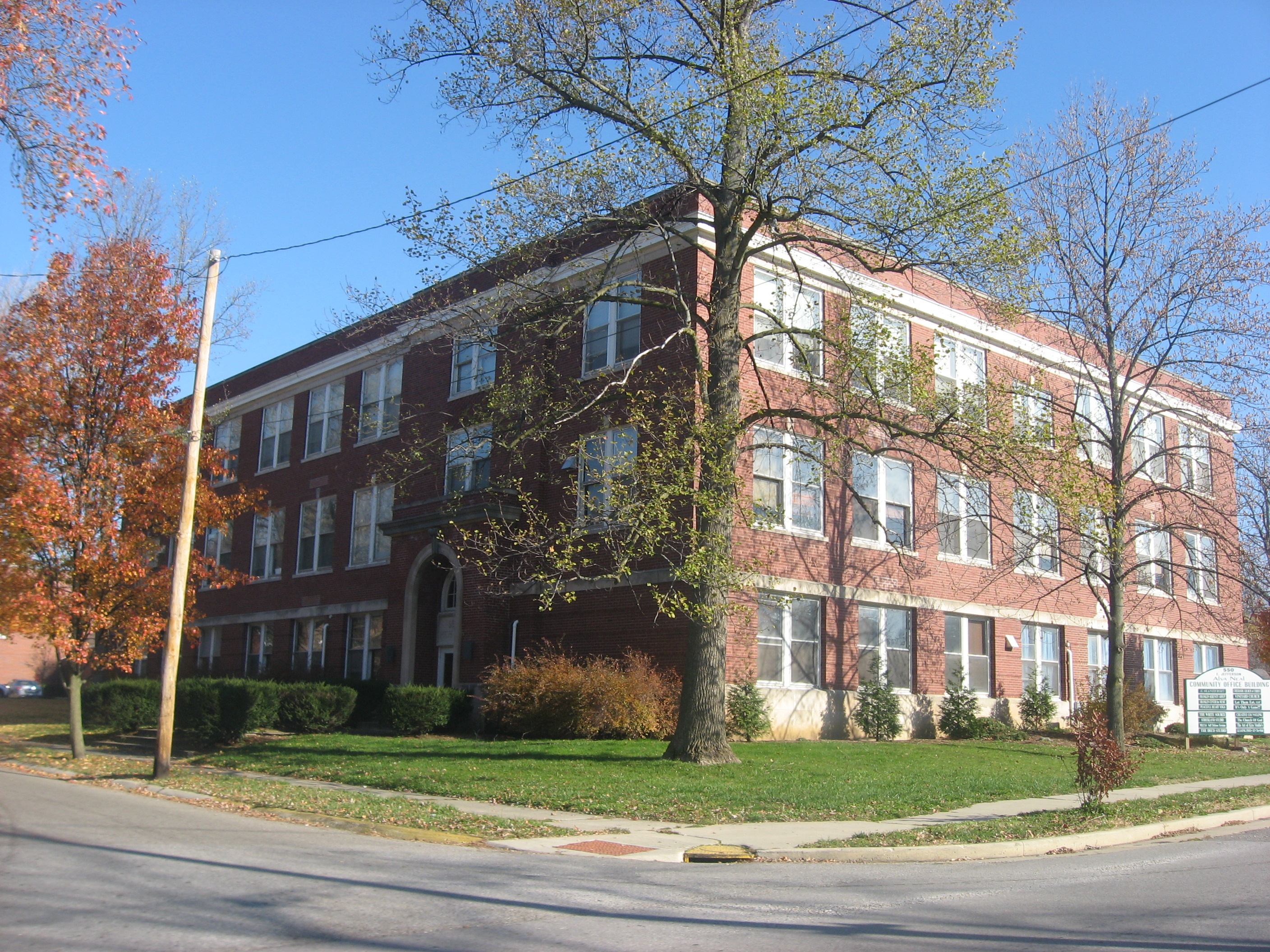 Front and western side of the former Franklin Senior High School, located at 550 E. Jefferson Street in Franklin, Indiana, United States. Built in 1938, it is listed on the National Register of Historic Places.